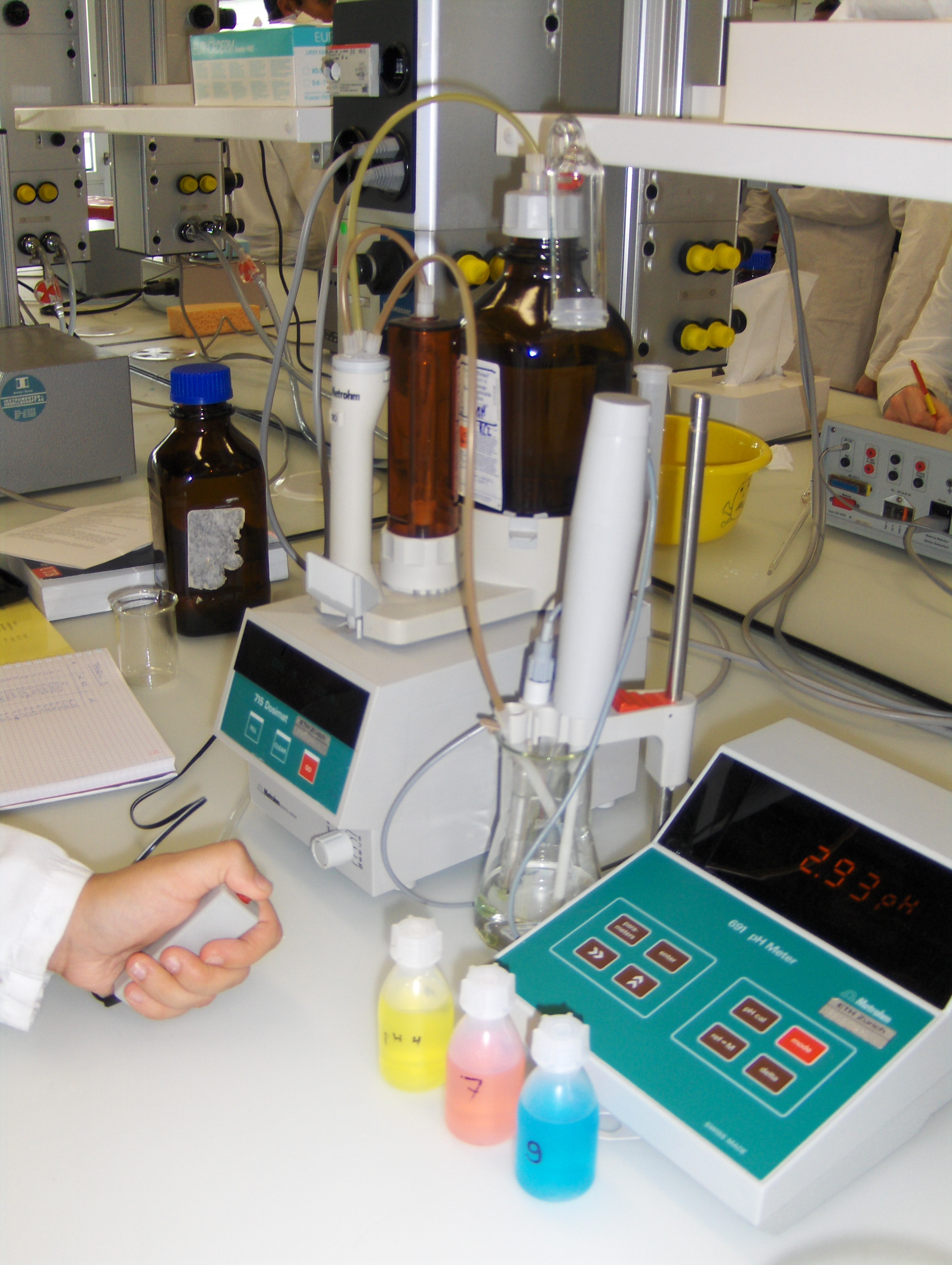 Dosimat and pH meter Metrohm